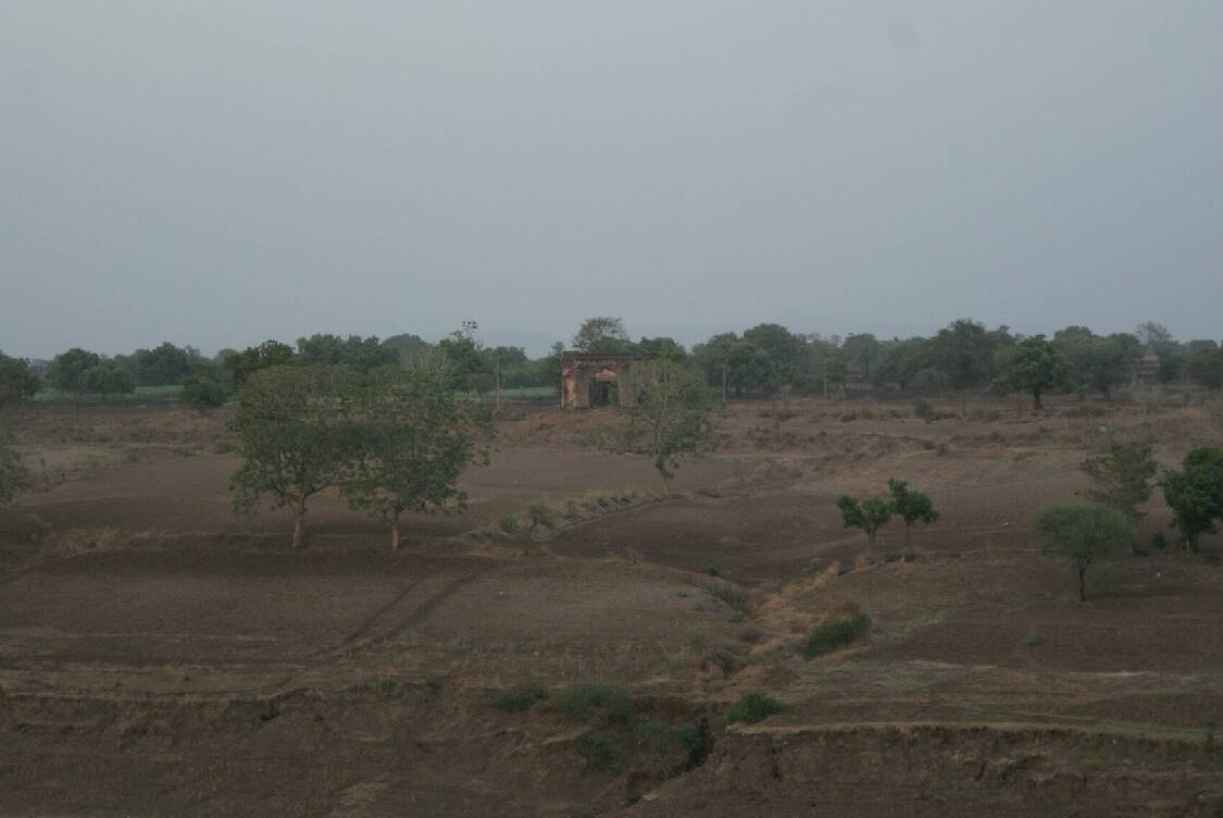 Original site for Tajmahal in Burhanpur (finally built at Agra)